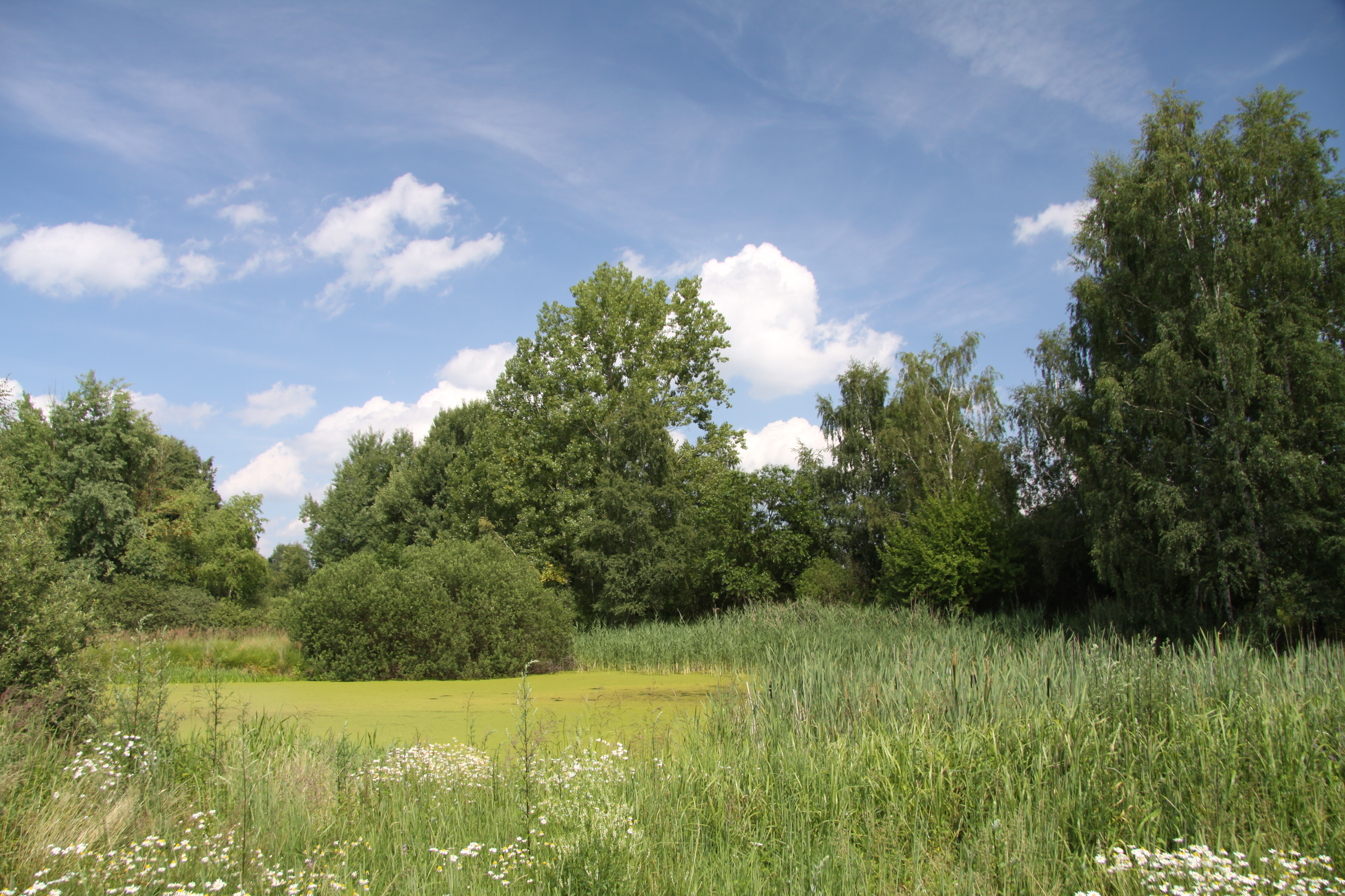 National nature reserve Velký a Malý Tisý in Jindřichův Hradec District, Czech Republic